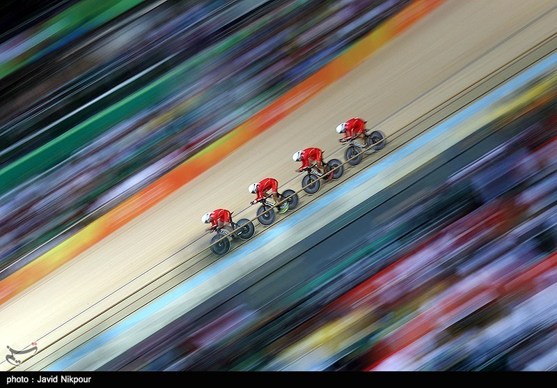 Cycling at the 2016 Summer Olympics